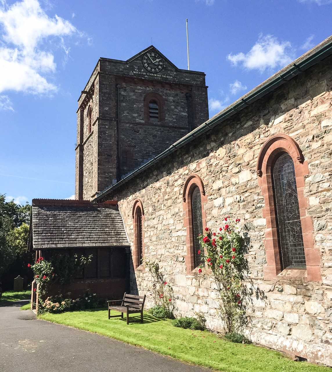 South side of the parish church of St Mary Magdalene, Broughton-in-Furness, Cumbria, seen from the east